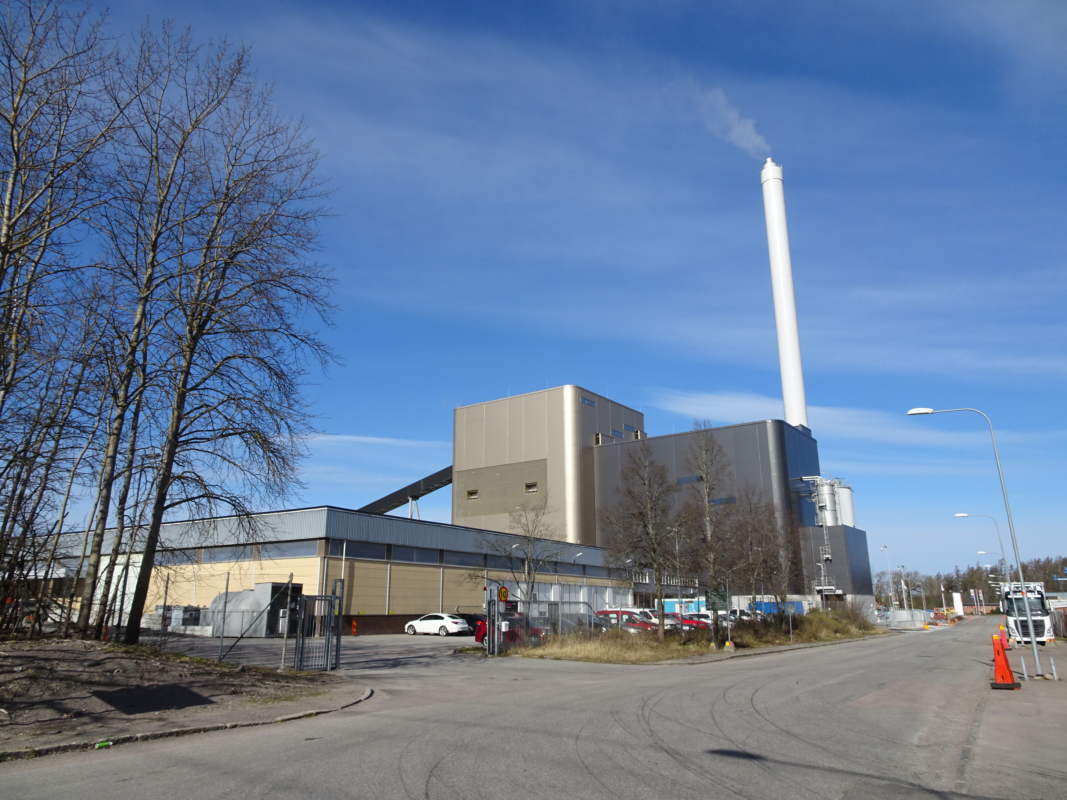 Västerås Combined heat and power plant, unit 7. Västerås, Sweden. It went into operation 2020 and has a thermal output of 150 MW, which is divided into 50 MW electric power and 100 MW heat for Västerås district heating network. The unit is burning waste wood from housholds and industries.